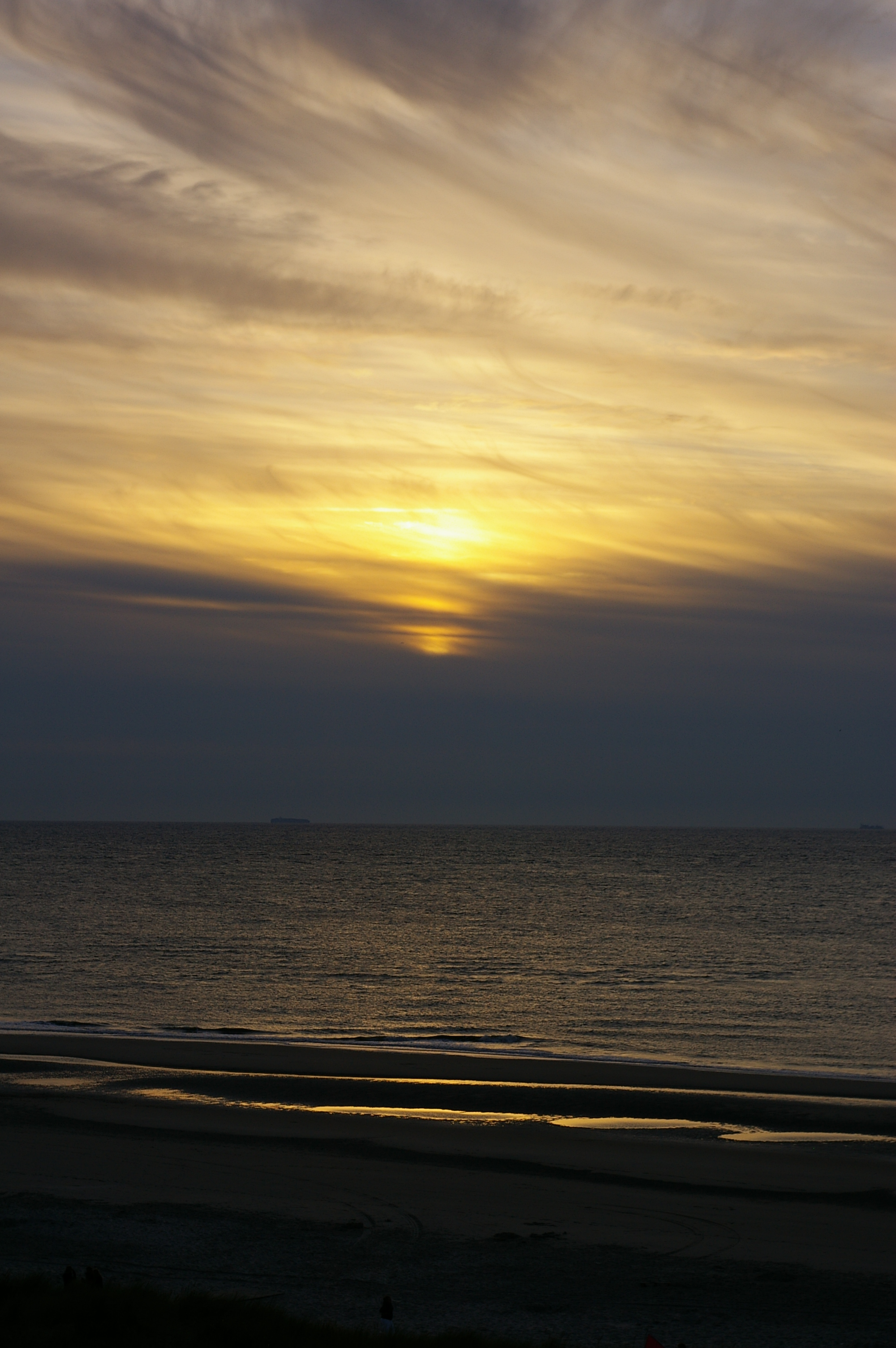 A sunset taken on the Island of Vlieland, The Netherlands